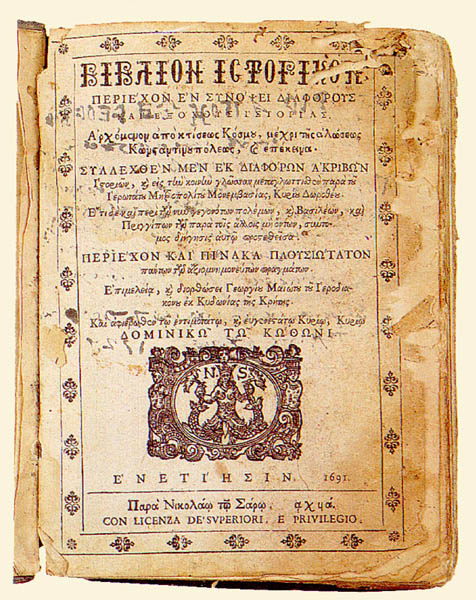 "Χρονογράφος" (1691) book cover